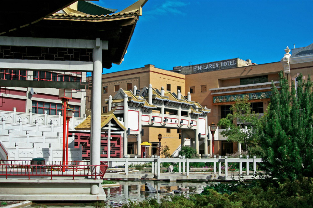 Winnipeg's China Town